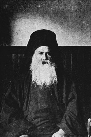 Dionysius (19th c.-20th c.): Metropolitan of Silivri